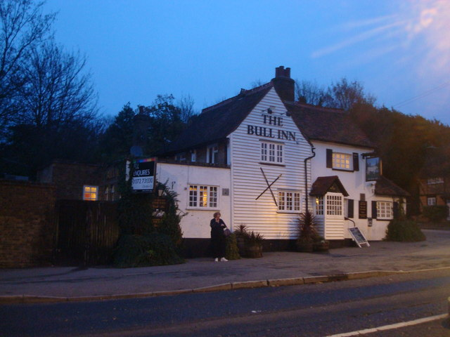 The Bull Inn public house, St Paul's Cray